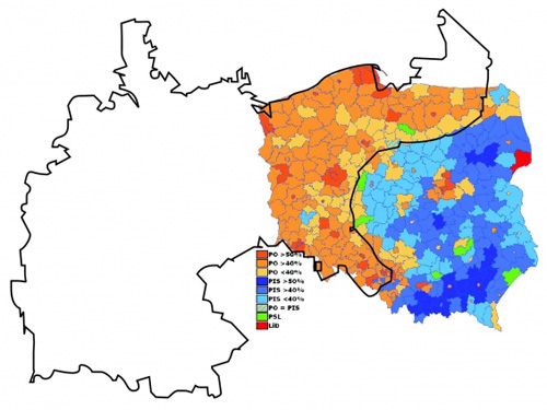 Polish 2007 elections results and German empire map